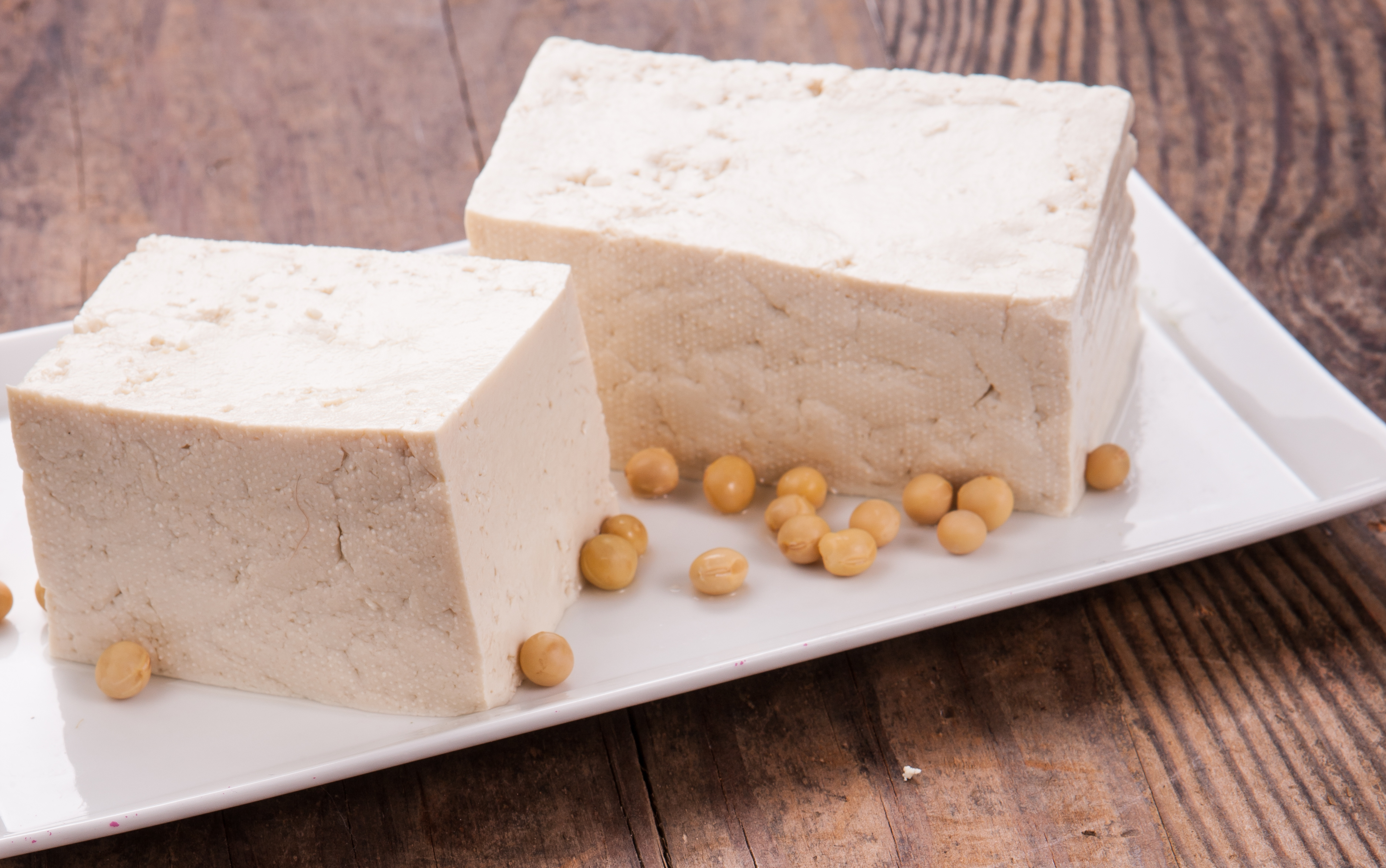 Tofu